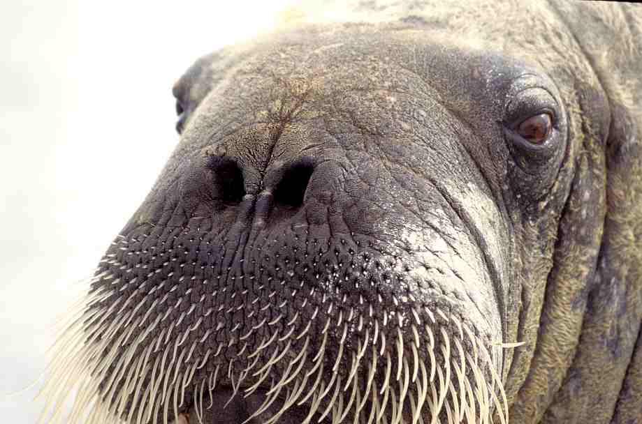 Old lonely bull IV, Atlantic walrus (Odobenus rosmarus rosmarus) on ice flow in Foxe Basin (Nunavut, Canada)